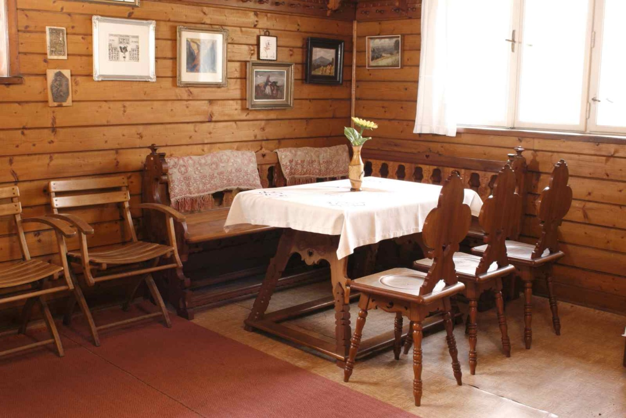 Silesian museum - cabin PB1